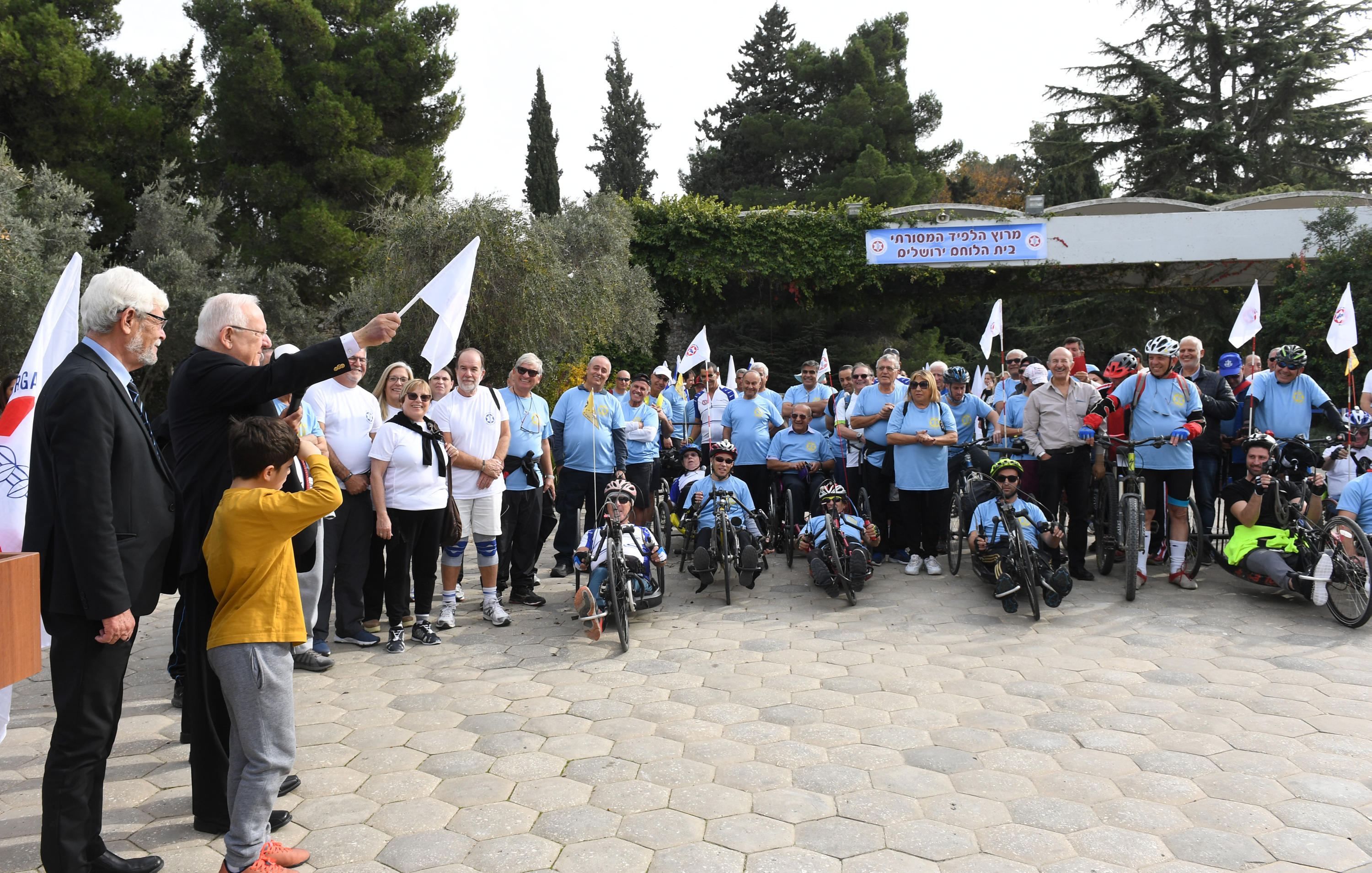 The President of Israel, Reuven Rivlin, launches the traditional torch relay of the IDF disabled veterans organization from Beit HaNassi. Wednesday, December 20, 2017. Photo credit: Haim Zach GPO.